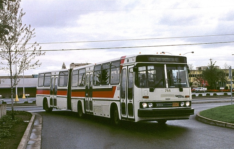 Tri-Met bus 744, a 1982 Crown-Ikarus 286 bus, turning into the Hollywood Transit Center from NE Halsey Street, heading for 95th & Sandy (Parkrose Park-and-Ride) on route 12-Sandy Blvd. TriMet's last Crown-Ikarus articulated buses were retired in March 1999.